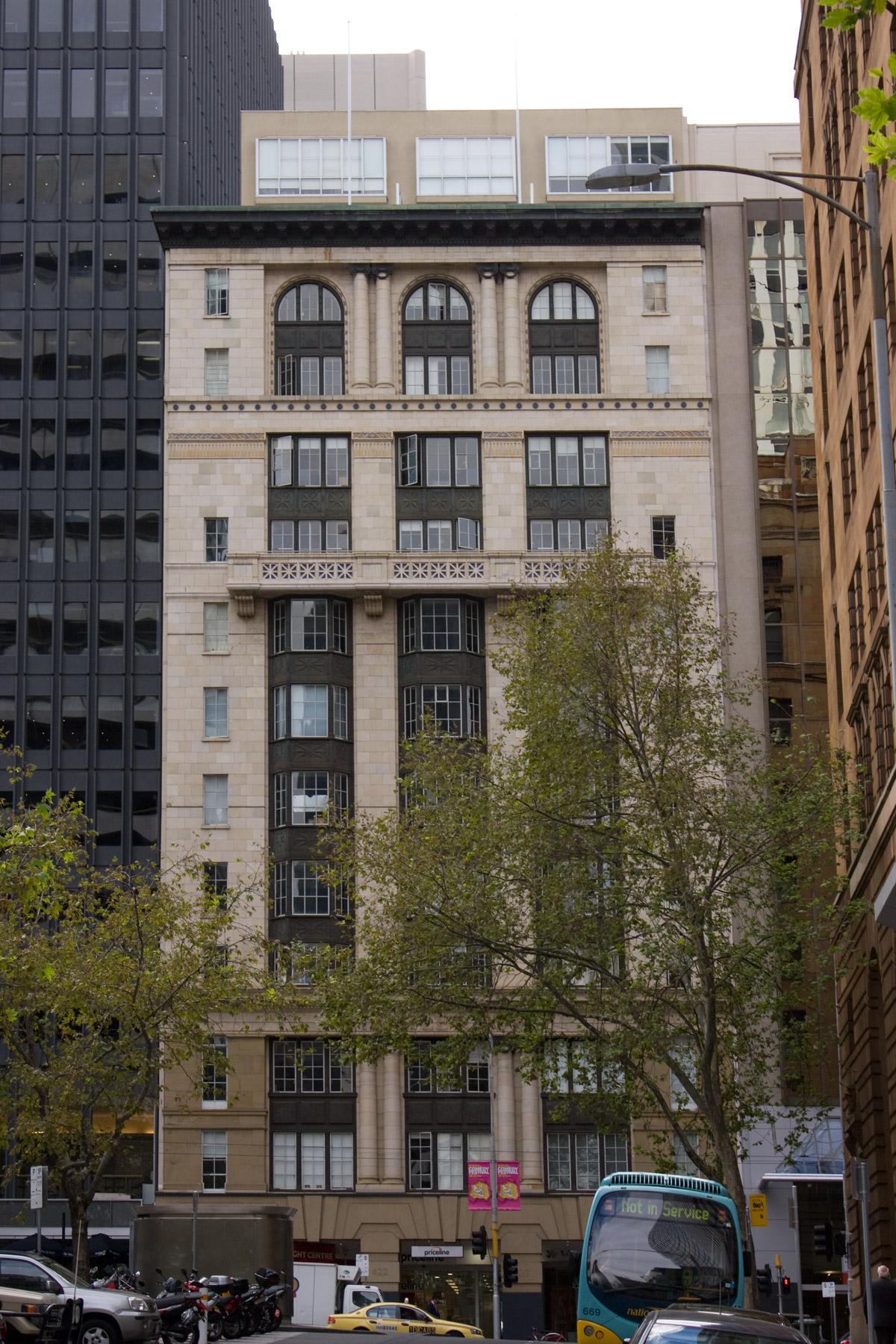 Temple Court apartments on Collins Street, Melbourne CBD